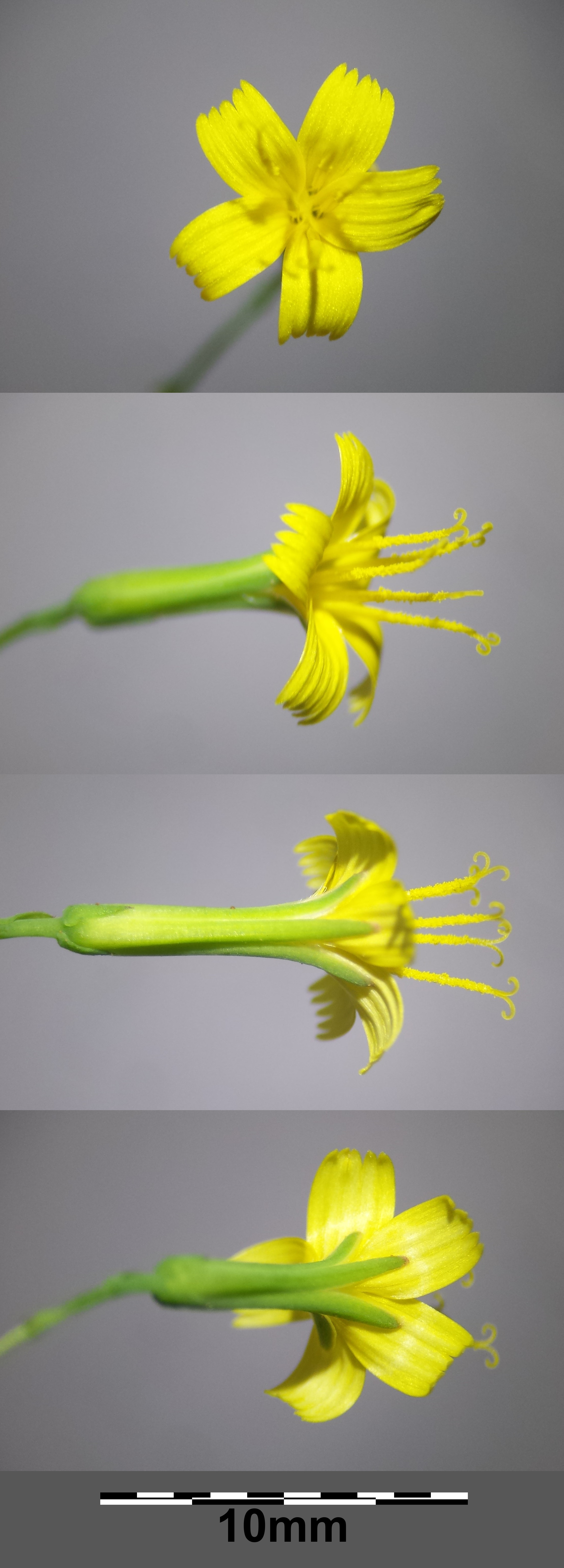 Capitulum Taxonym: Lactuca muralis ss Fischer et al. EfÖLS 2008 ISBN 978-3-85474-187-9 Location: near Raingrubenhöhe/Bruderndorf, district Korneuburg, Lower Austria - ca. 275 m a.s.l. Habitat: wayside within a wood